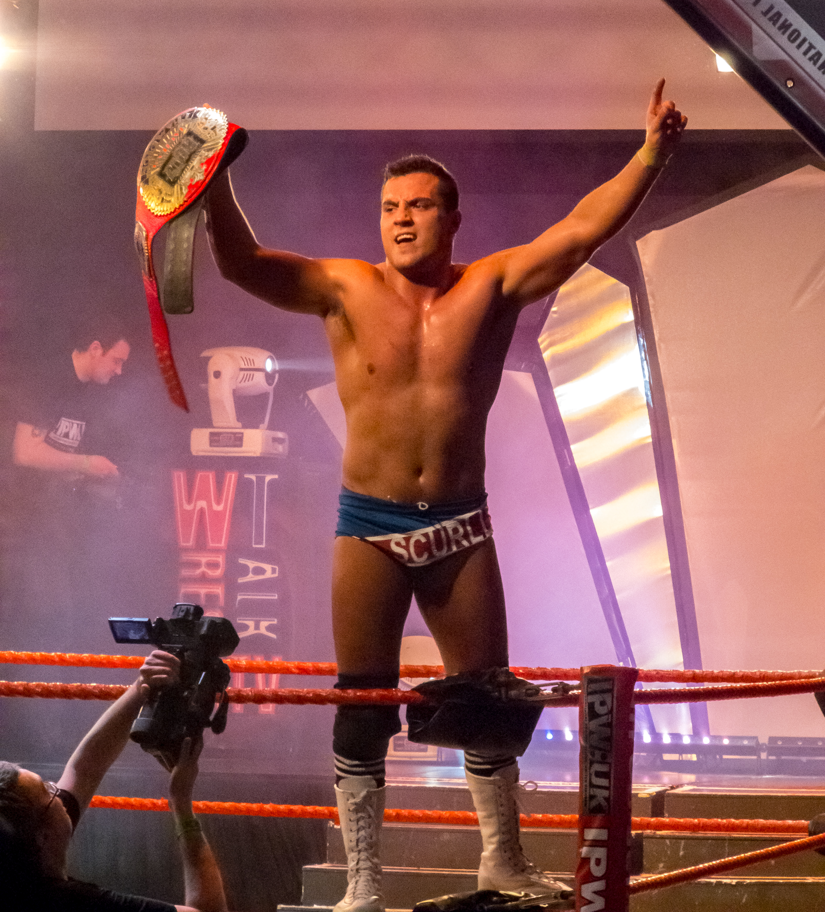 Marty Scurll after defeating Sami Callihan for the British Cruiserweight Championship at IPW:UK's Revolution show on April 28, 2012.